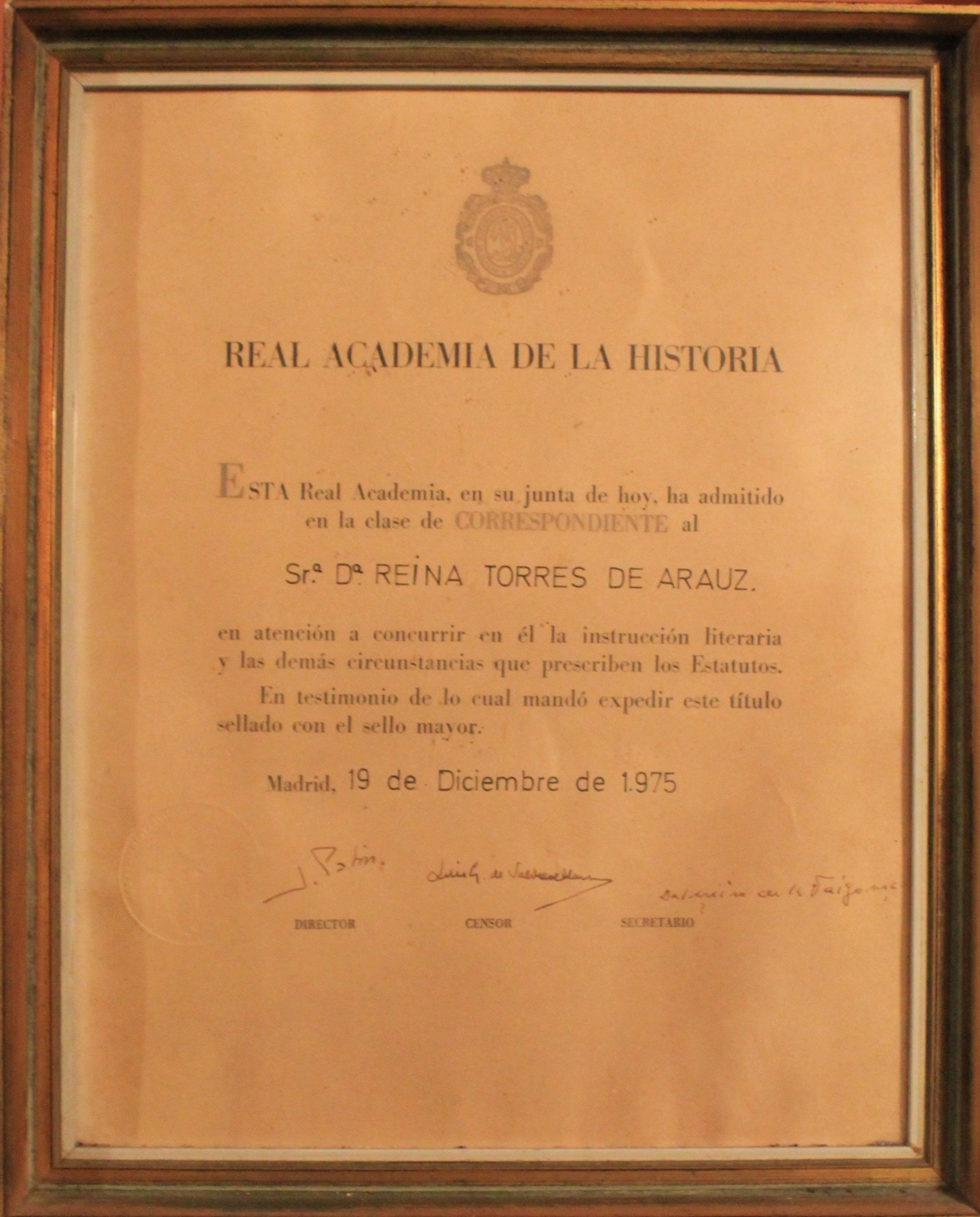 Reina Torres de Arauz